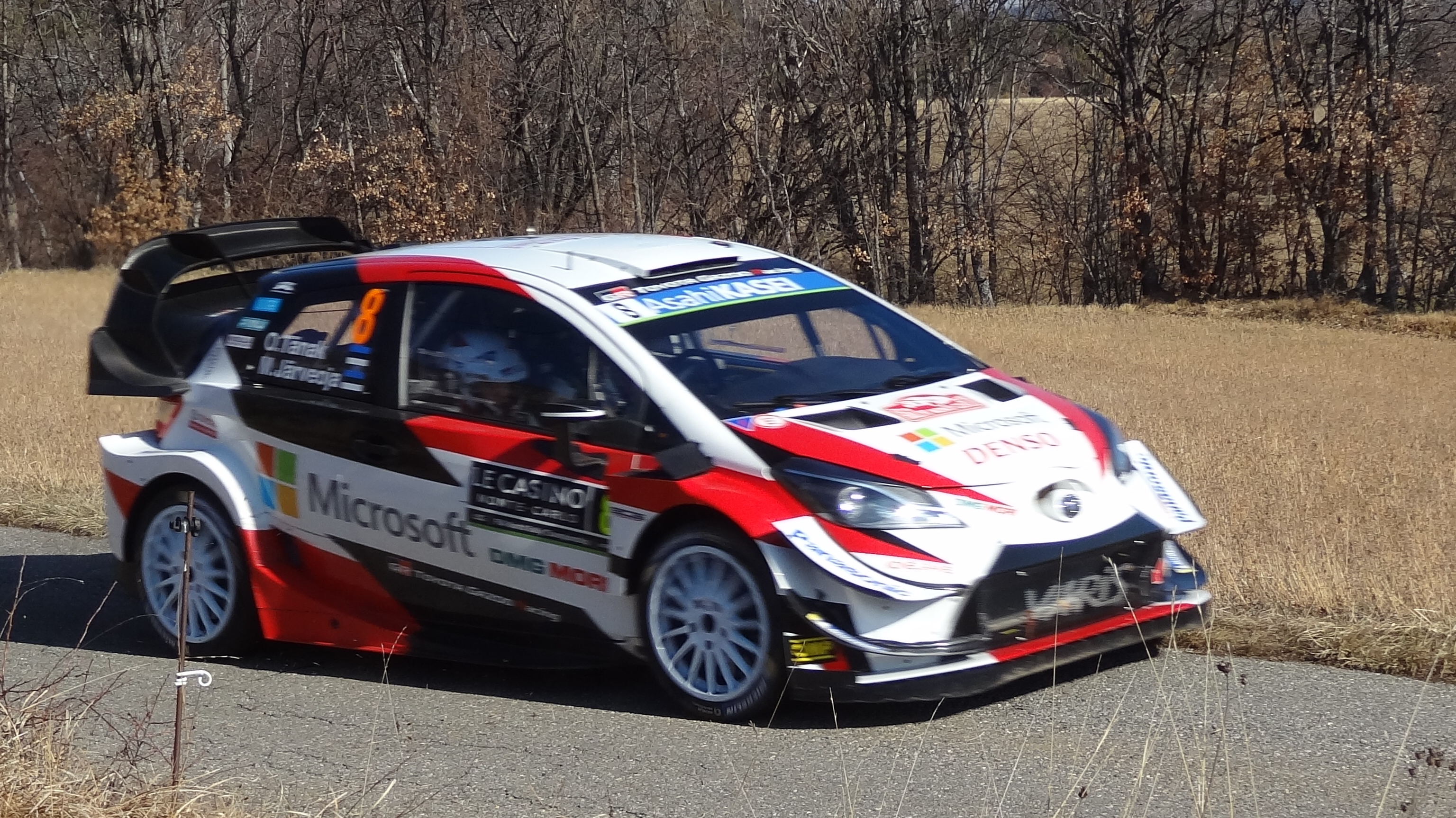 Toyota Yaris WRC d'Ott Tänak au Rallye Monte-Carlo 2019.